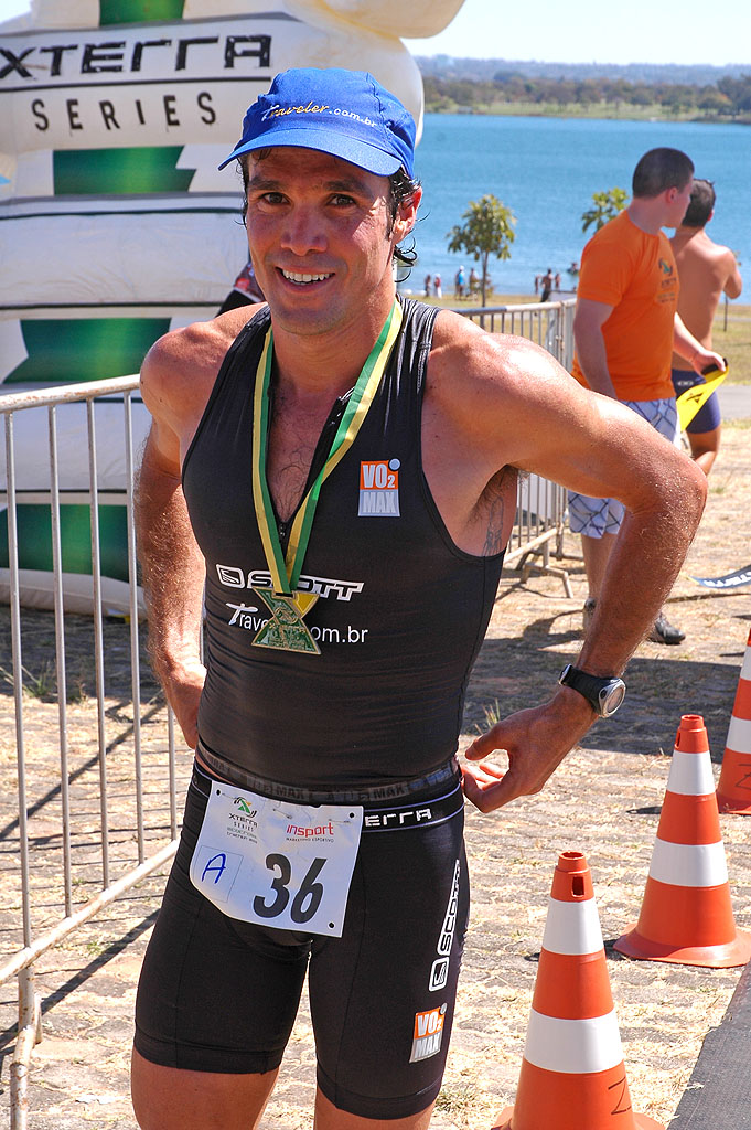 Brazilian Triathlete Alexander Manzan after winning the 2009 edition of the Brasilia XTerra triathlon event.